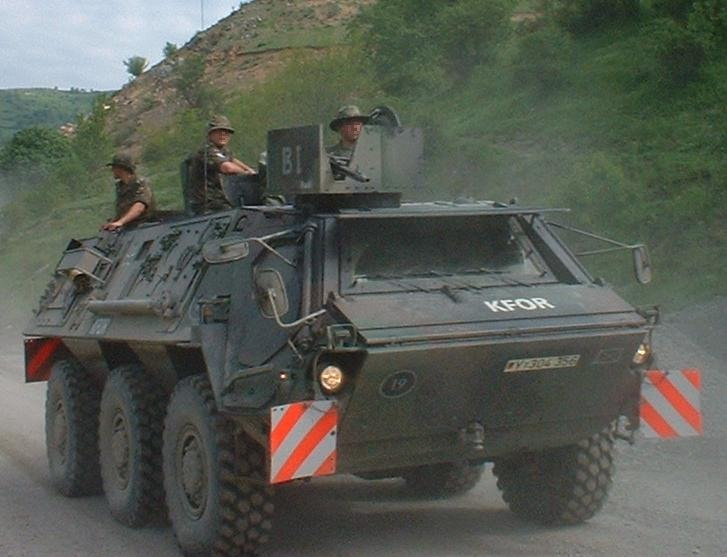 Transportpanzer Fuchs with modular armour protection system.